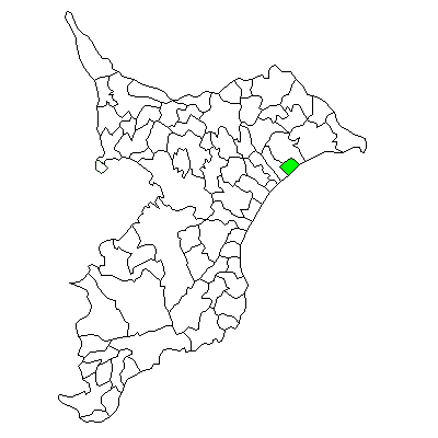 Location Map of former Nozaka Town, Chiba Prefecture, Japan, now part of Sosa City.